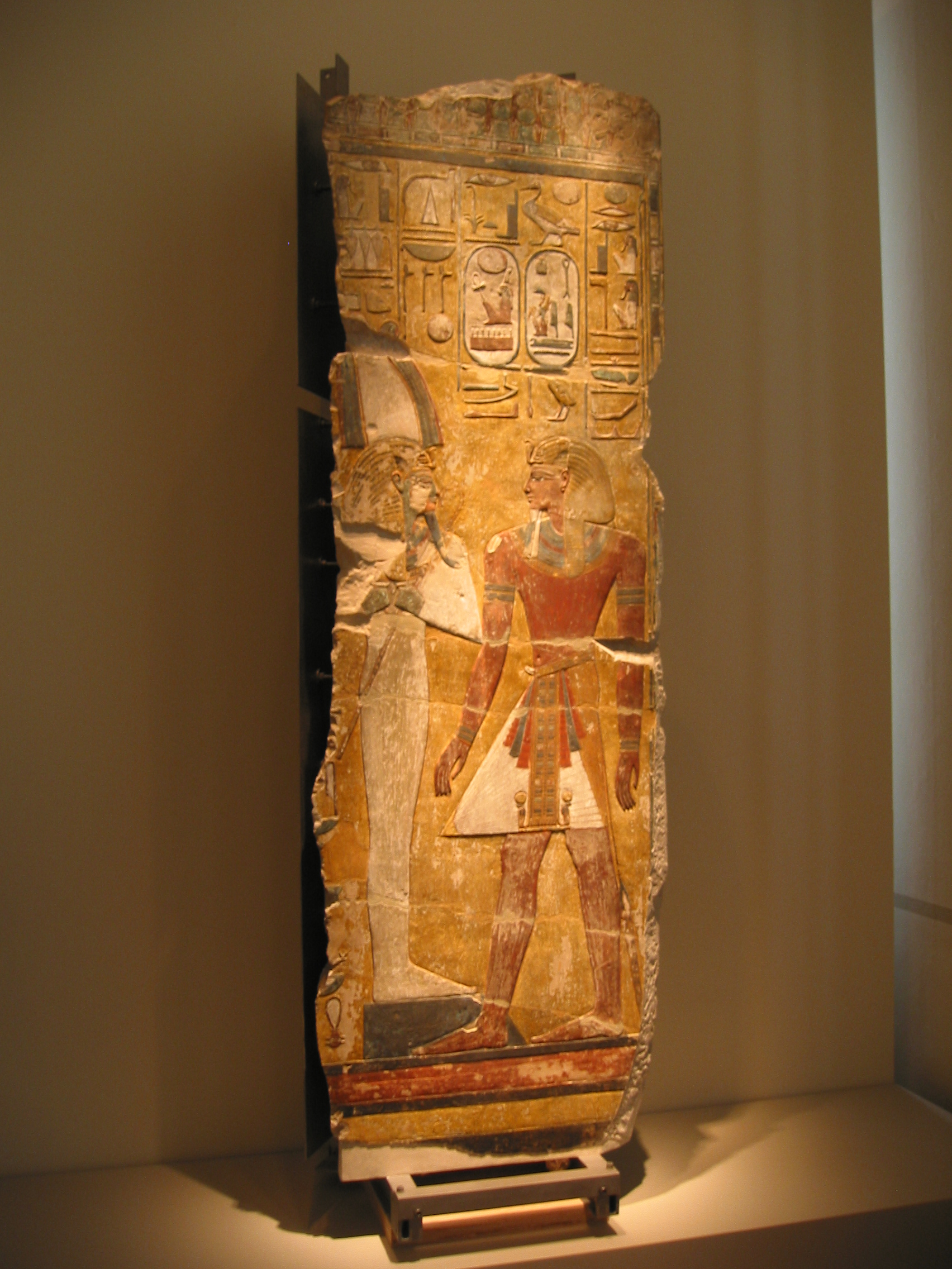 Object in the Ägyptisches Museum Berlin (Egyptian museum, building of the New Museum), Berlin.